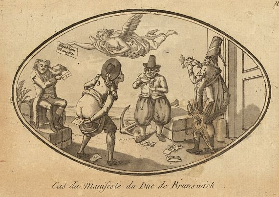 Library of Congress description: "Print shows four figures representing foreign nations responding unfavorably to the manifesto issued by the Duke of Brunswick and Lüneburg on July 25 1792. A fifth figure representing Fame (an angel with trumpet) flies overhead holding a sign labeled 'République Française'."